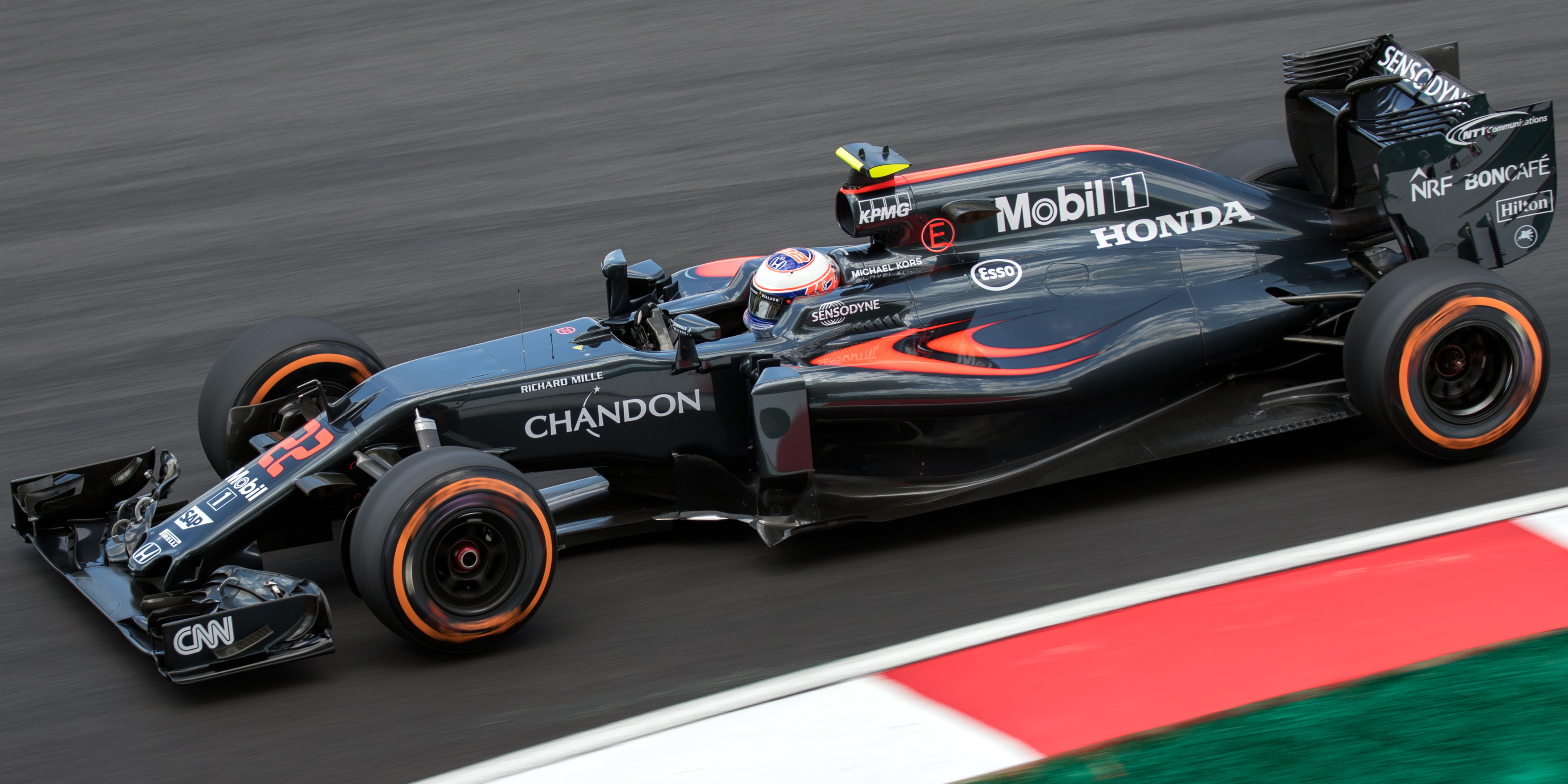 Formula One 2016 Rd.16 Malaysian GP: Jenson Button (McLaren)